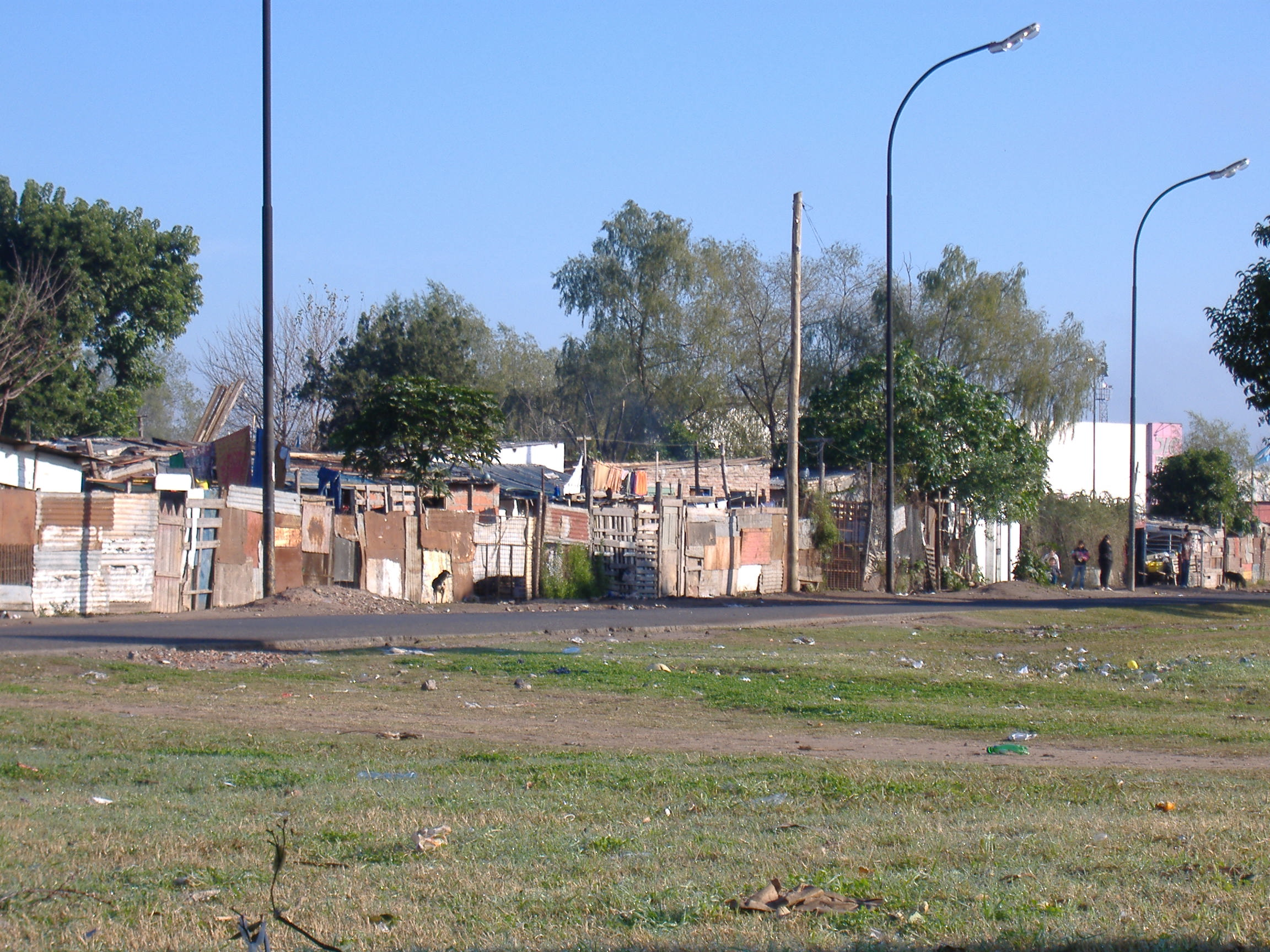 A villa miseria (shanty town) in Rosario, Argentina.